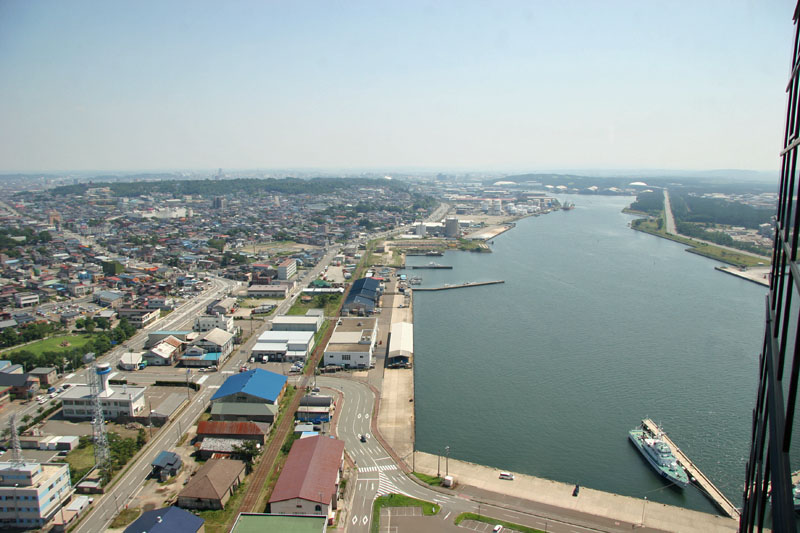 Tsuchuzaki Port (view from Akita Port Tower SELION), Akita, Akita, Japan